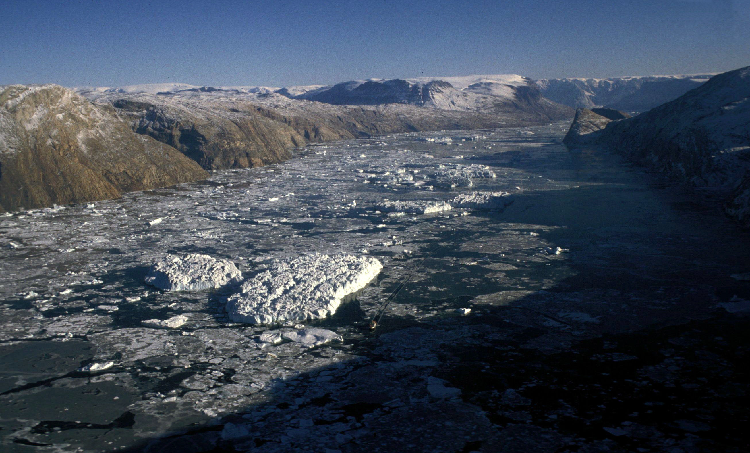 End of Nordvestfjord off the calving area of Daugaard-Jensen-Glacier, Scoresby Sund fjord system, East Greenland. In the fjord the German research vessel POLARSTERN during curise ARK-X/2